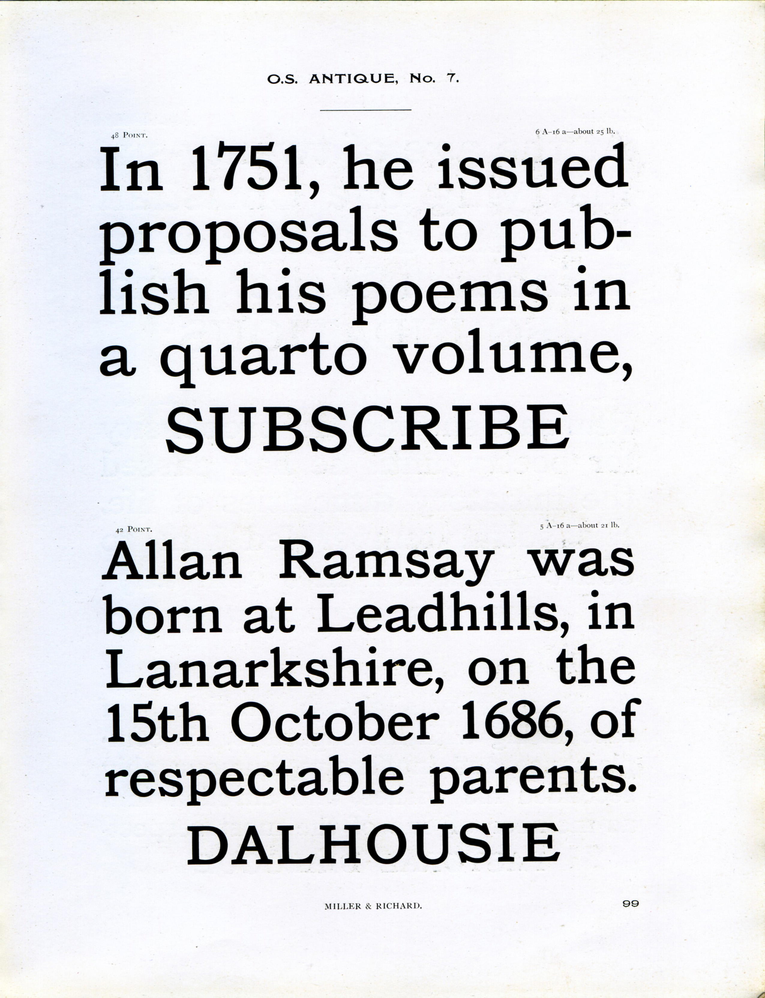 From